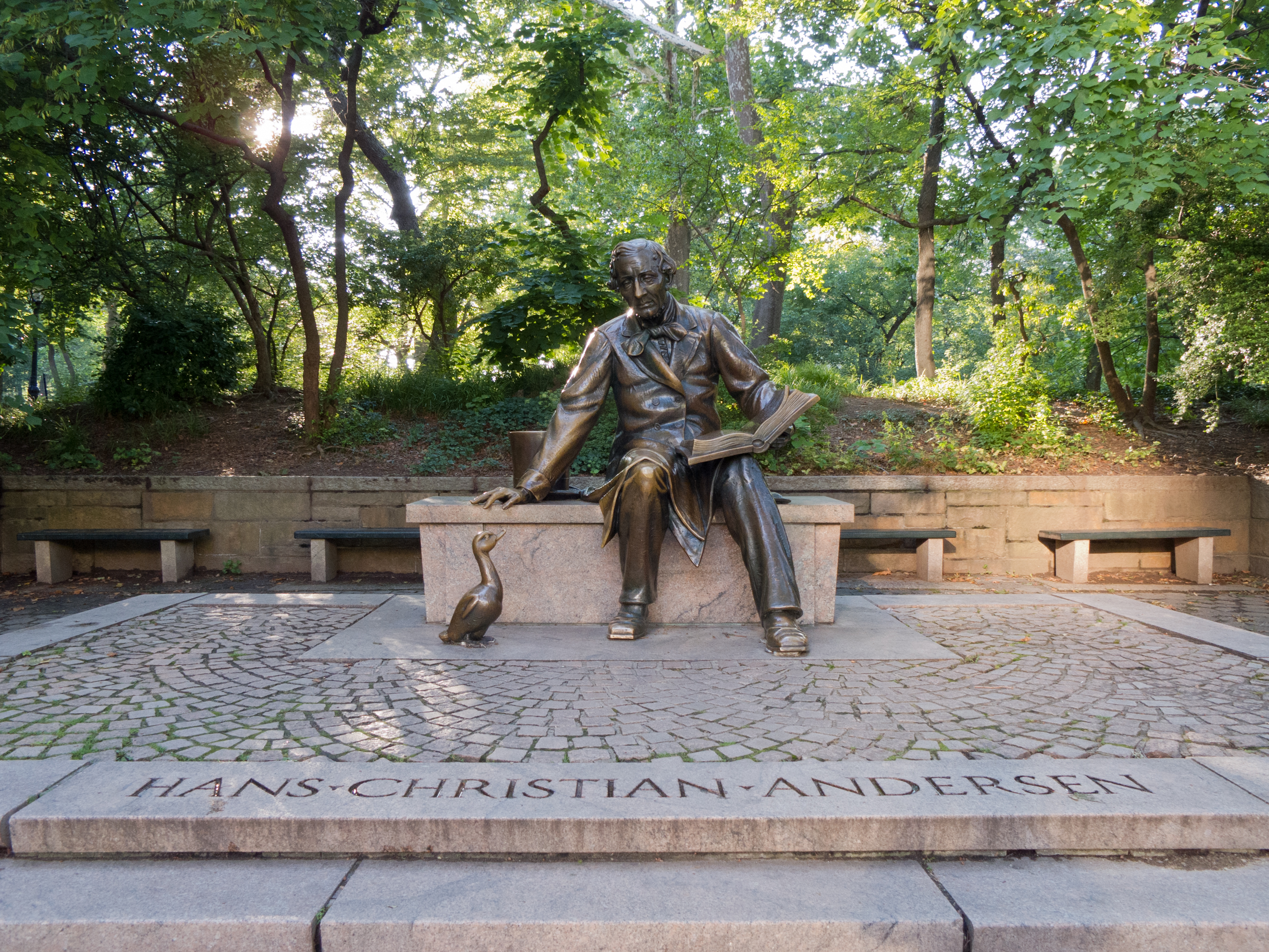 Sculpture of Hans Christian Andersen in Central Park, New York, United States.